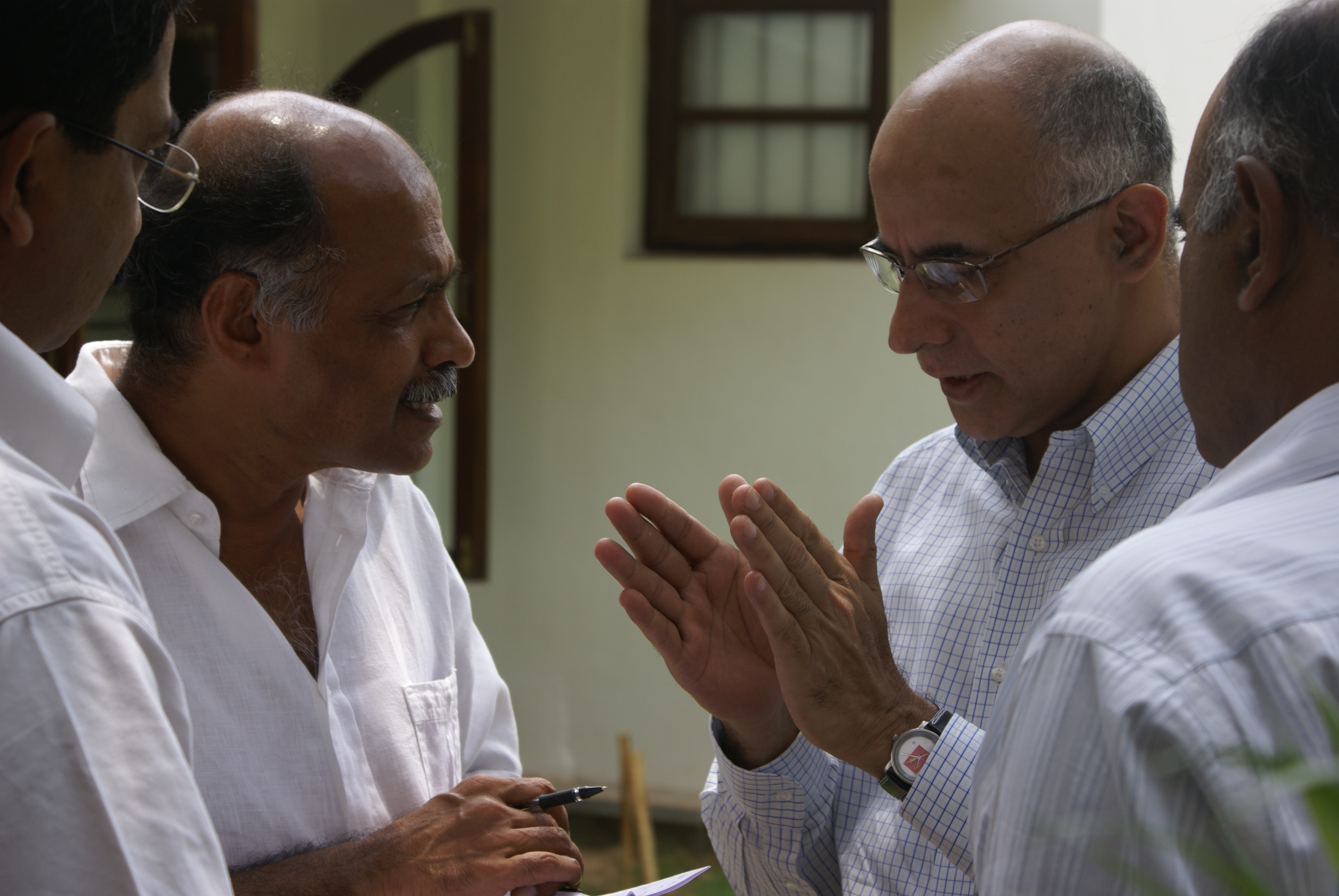 The captain, left, is all ears for some tips from Subroto Bagchi, a friend and founder of Mindtree, a leading information technology firm.